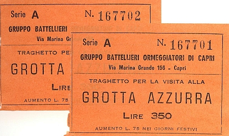 Two tickets for the ferry to visit the Blue Grotto